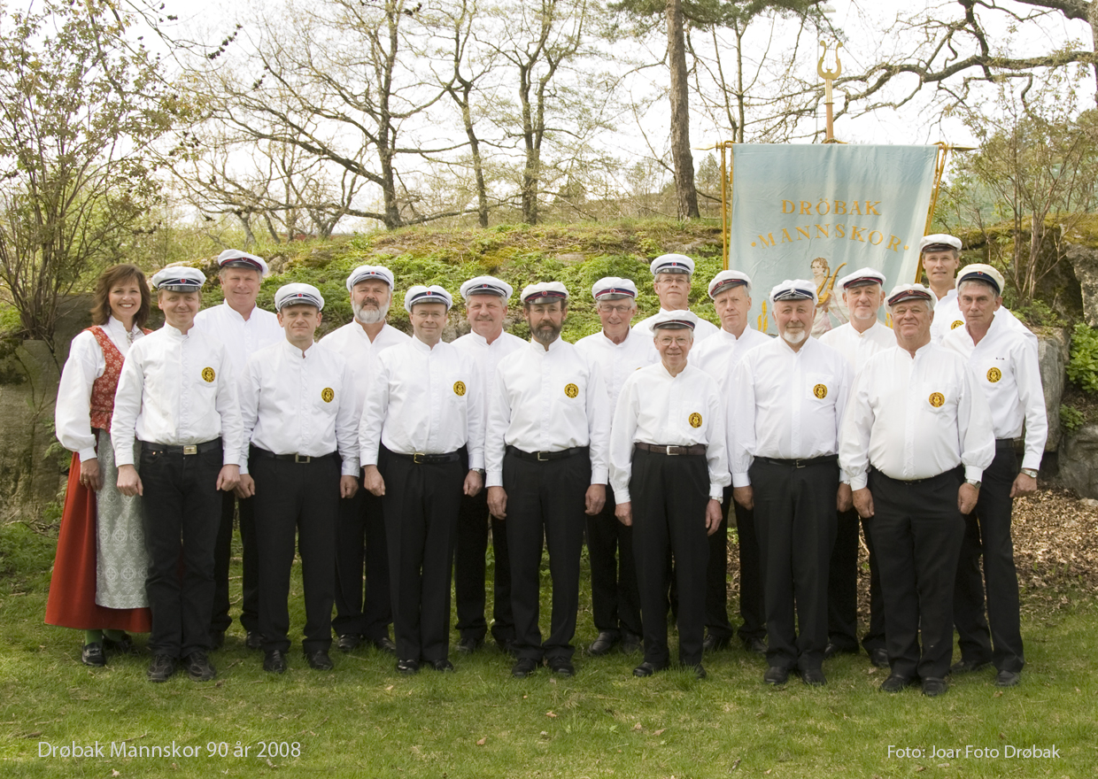 Drøbak Mans Choir 90 years in may 2008